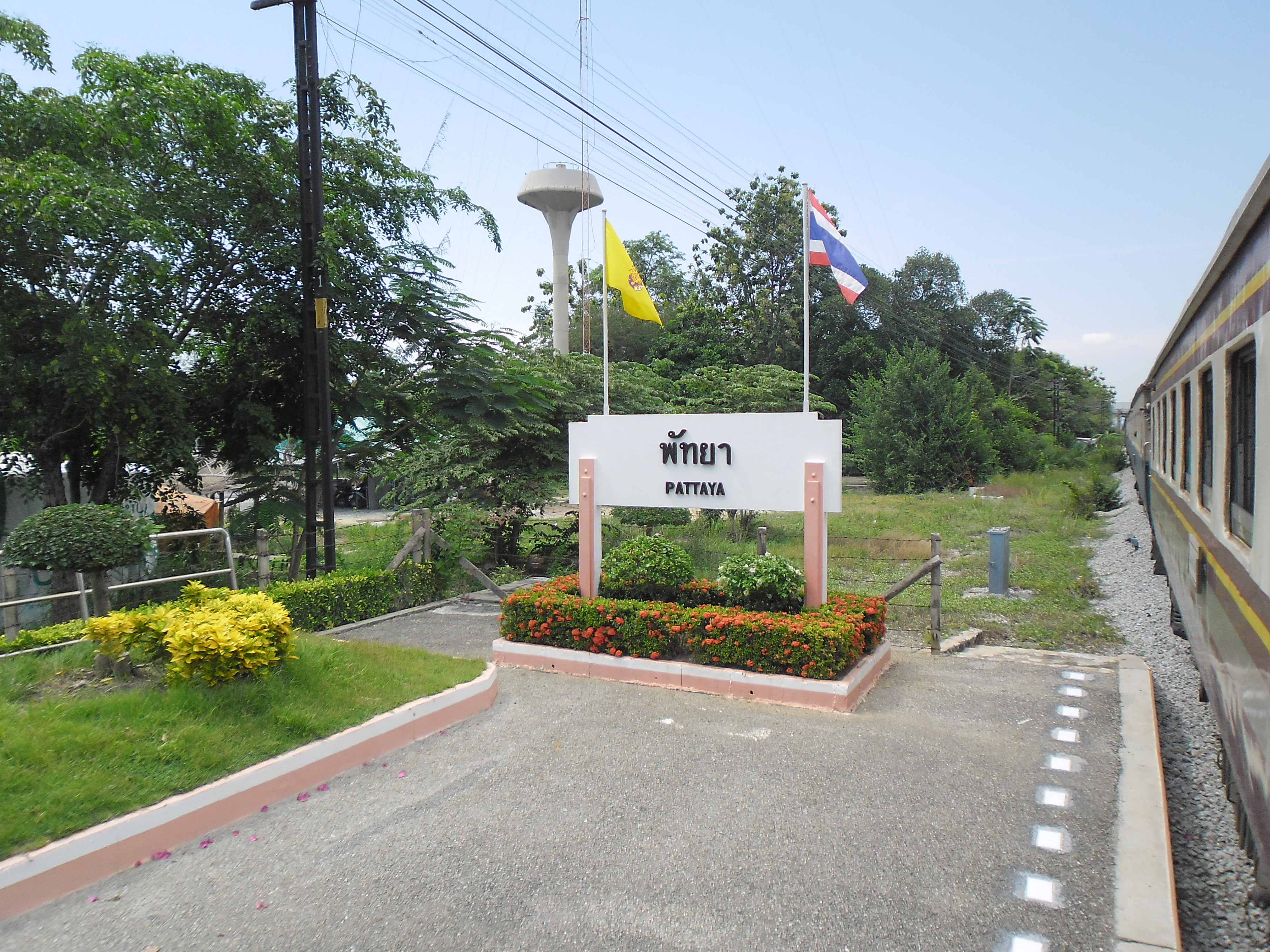 Northern sign of Pattaya Railway Station, Chon Buri, Thailand.